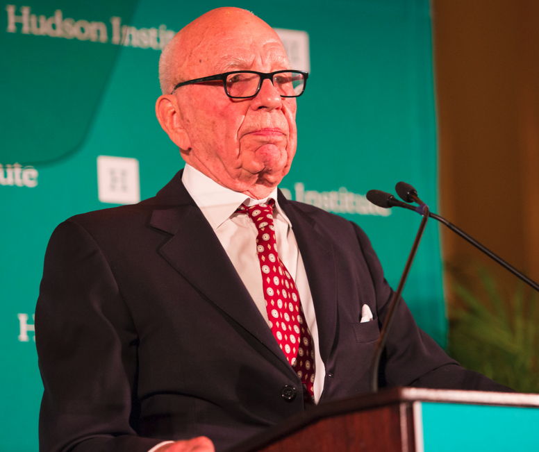 Rupert Murdoch accepts the 2015 Global Leadership Award.